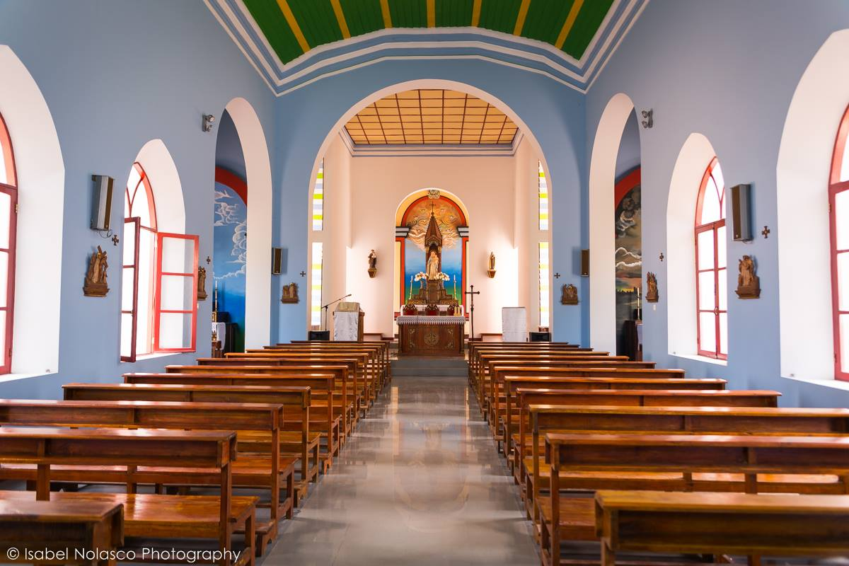 Laleia's church interiors. This church is an architectural pearl. It was rehabilitated recently, and the result is this beauty. In the main altar is Our Lady of the Rosary.